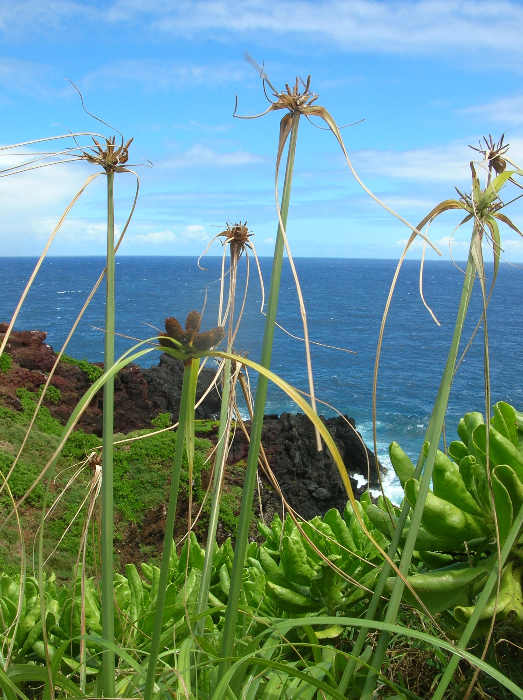 Cyperus phleoides (habit). Location: Maui, Alau